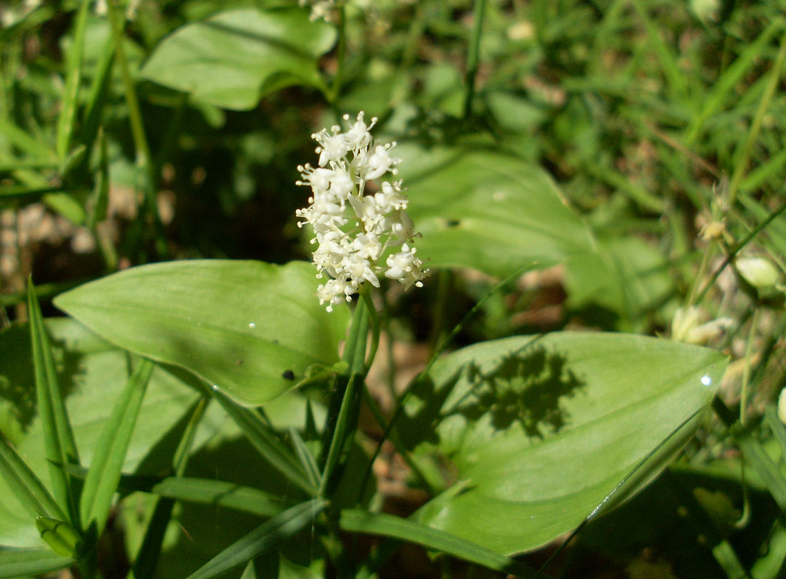 Maianthemum bifolium, picture taken in south Sweden